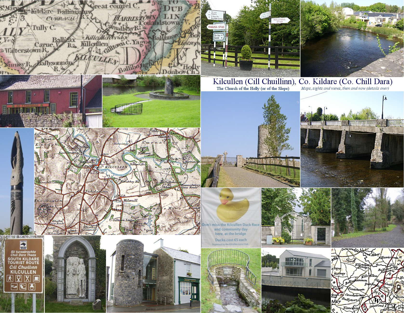 Postcard of Kilcullen, Co. Kildare, Ireland - 18th century map, roadsigns, R. Liffey, charity cafe and bookshop, memorial in community park, Irish round tower at site of old walled town, Kilcullen bridge, memorial of Dun Ailinne, 19th century map, Portlester Monument and other local scenes.